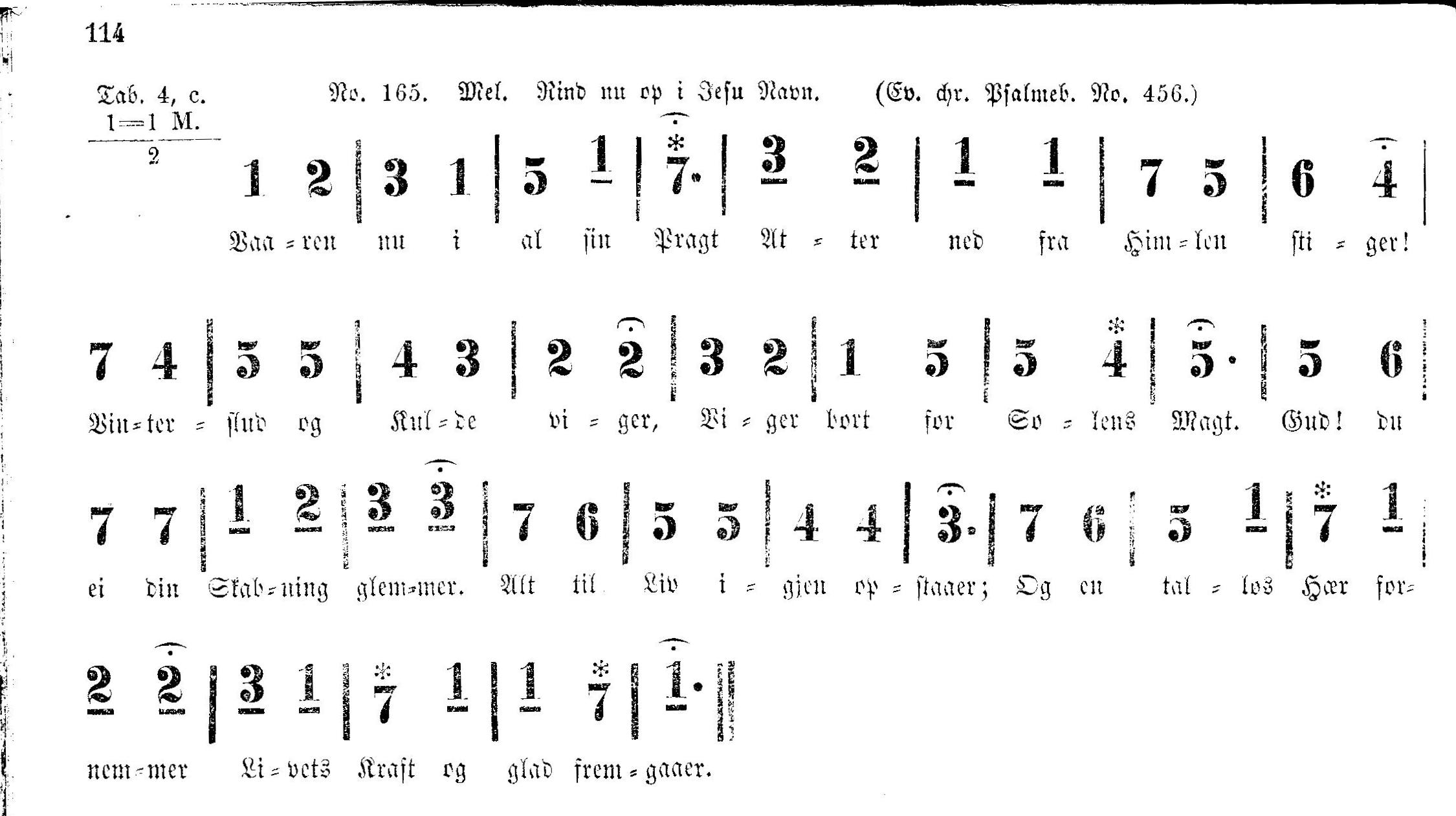 Copy from Norwegian book of Chorals